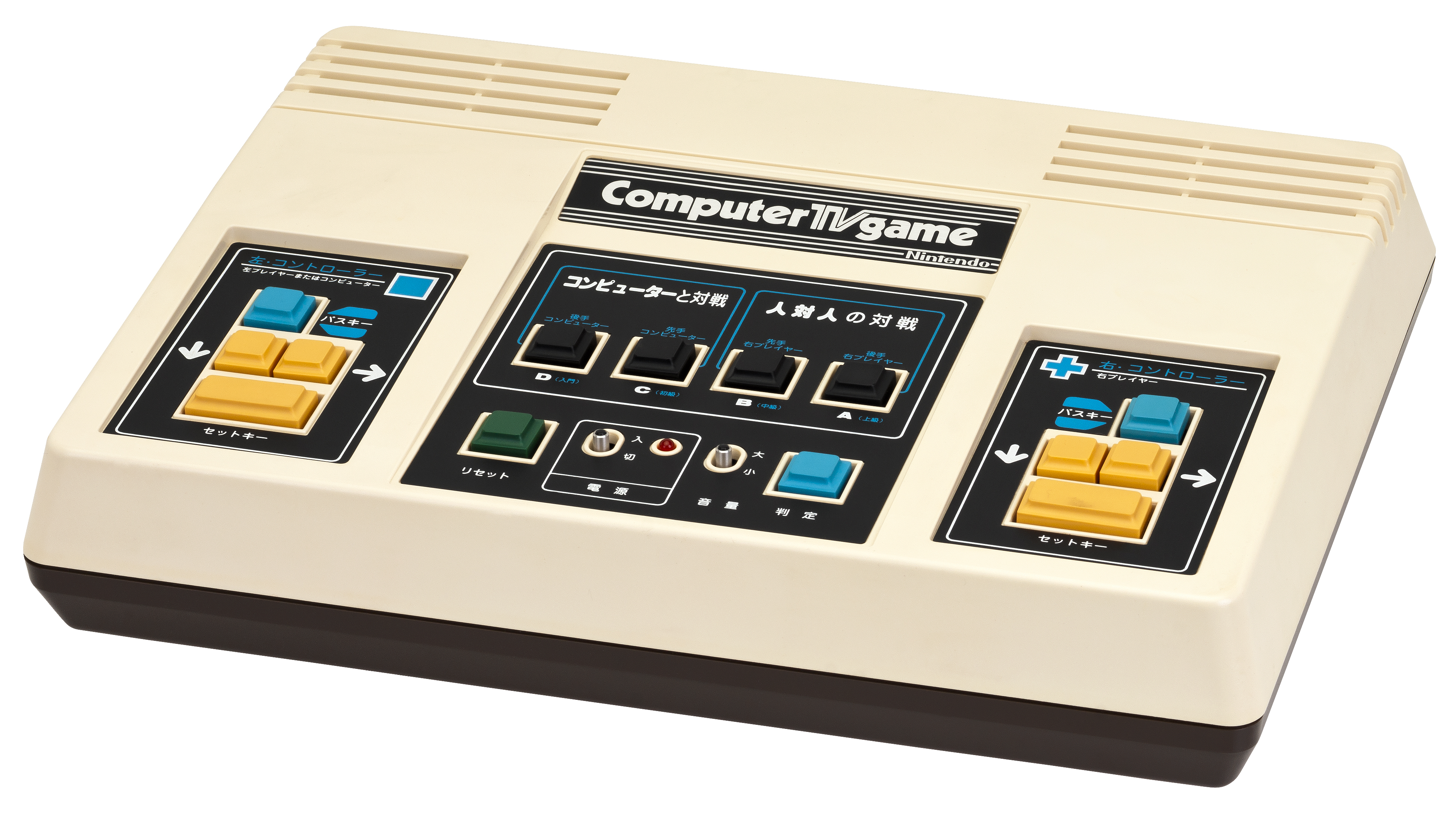 A Computer TV-Game, a dedicated game console made by Nintendo that was only released in Japan in 1980. This console plays Computer Othello, which is one of the first game video games developed by Nintendo. It was first released as an arcade cocktail-cabinet and then ported to this dedicated console.